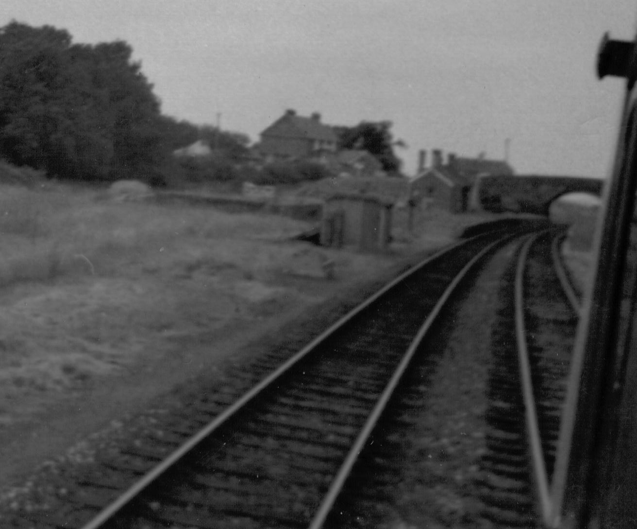 Sampford Courtney station, Devon